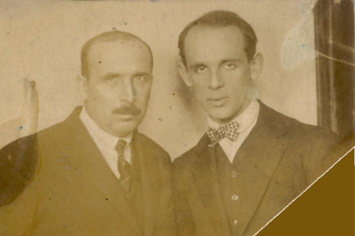 Georgi Zankov and his brother Alexander, Vienna, 1926